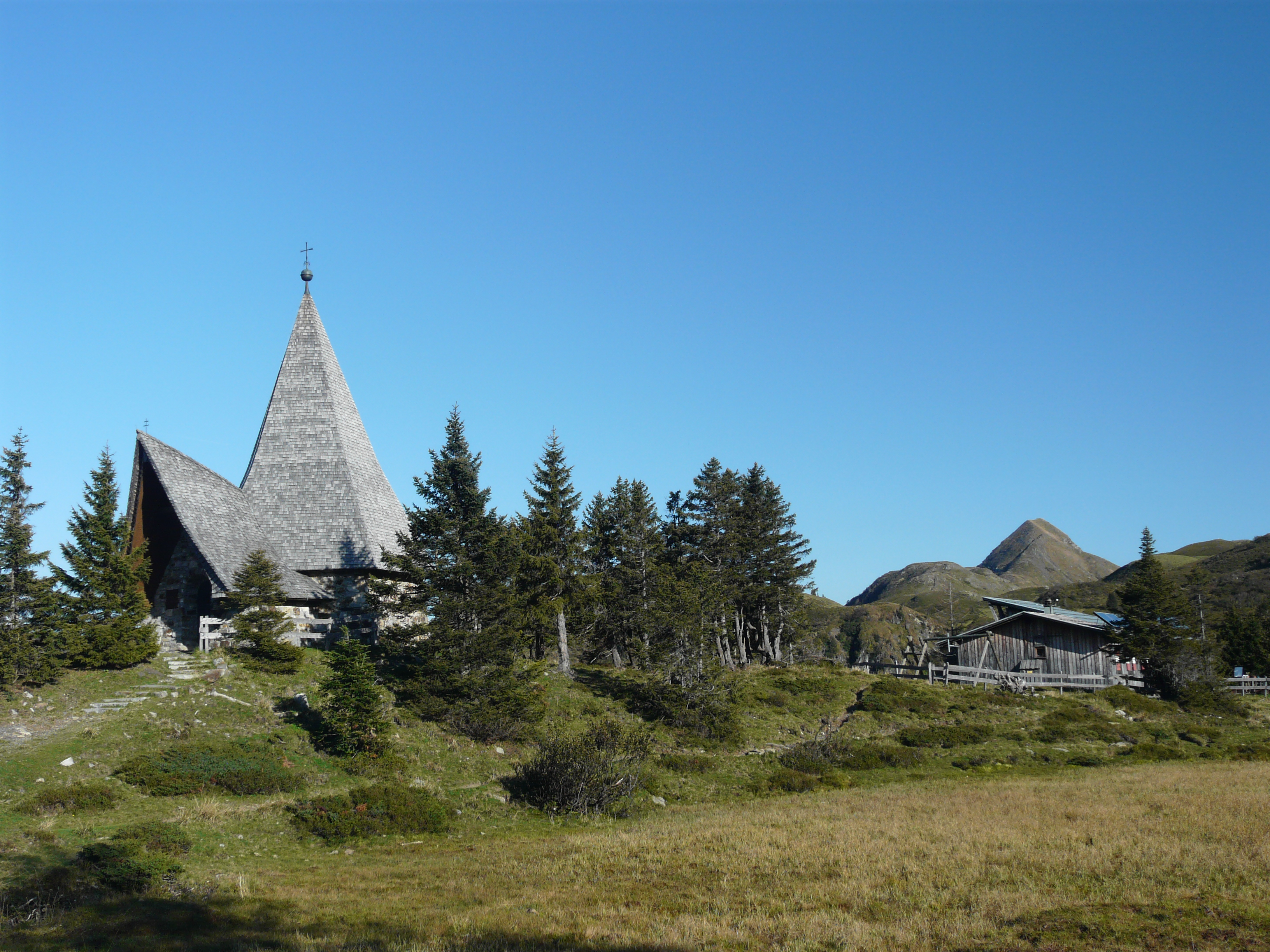 Zollner Peace Chapel and Zollnerseehuette in the Carnic Alps, situated at 1750 meters above sea level.